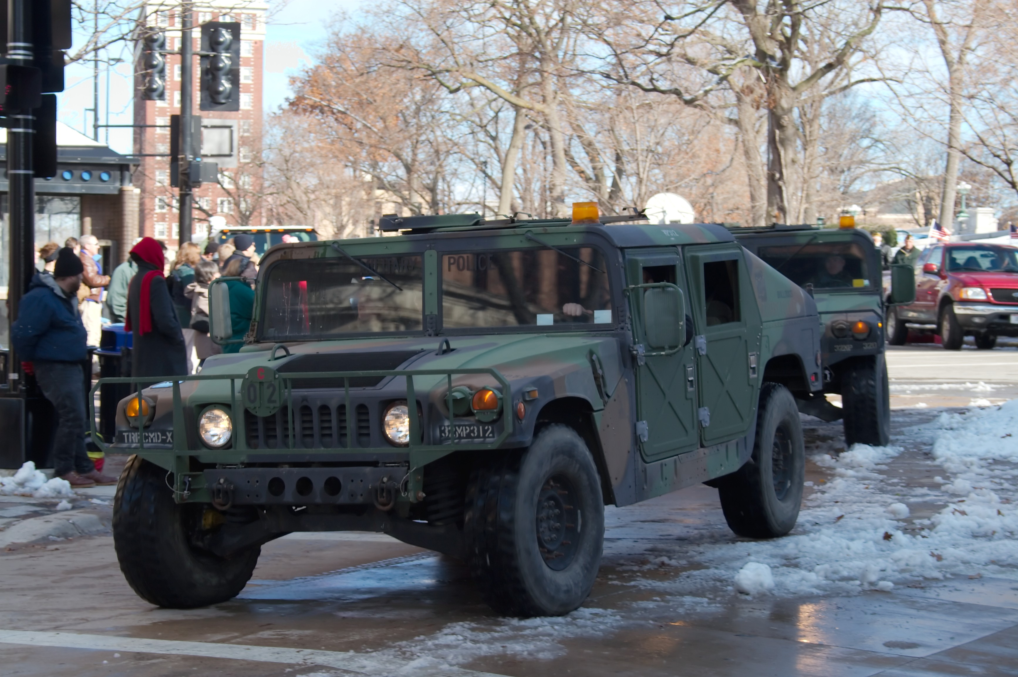 Taken in Madison, Wisconsin during Veteran's Day parade